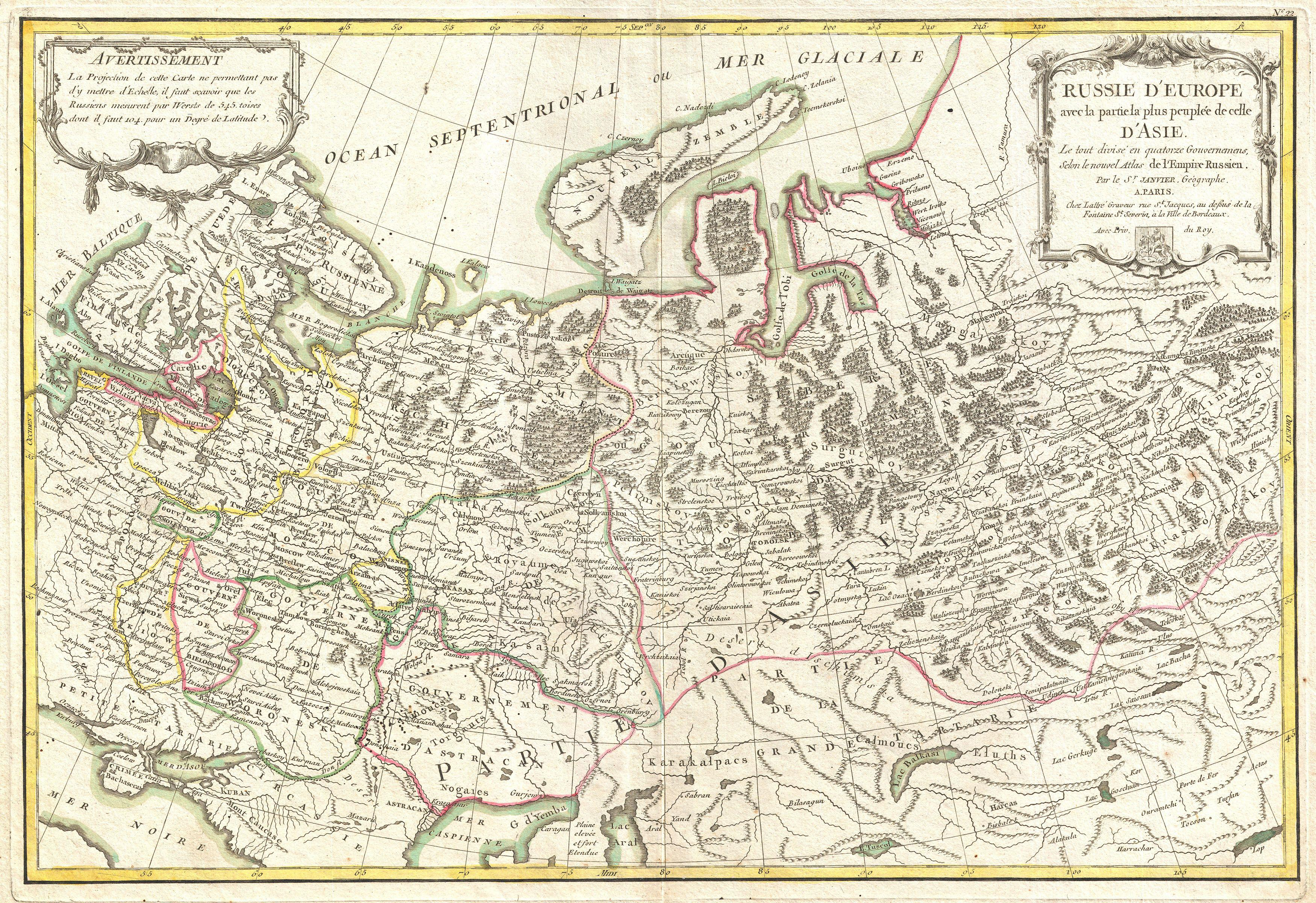 A beautiful example of Jan Janvier's curious decorative map of Western Russia. Covers from Poland and the Baltic Sea eastward as far as Ilimskoy, Siberia, extends south to the Black Sea and north as far as Nouvelle Zembla and the Arctic Sea. Ostensibly focuses on the most inhabited portions of the Russian empire in Europe and Asia. Offers excellent detail throughout showing mountains, rivers, forests, national boundaries, regional boundaries, forts, and cities. A large decorative title appears in the upper right quadrant. Upper left quadrant features an advertisement. Drawn by Jan Janvier around 1775 for issue as plate no. 22 in Jean Lattre's 1776 issue of the Atlas Moderne .